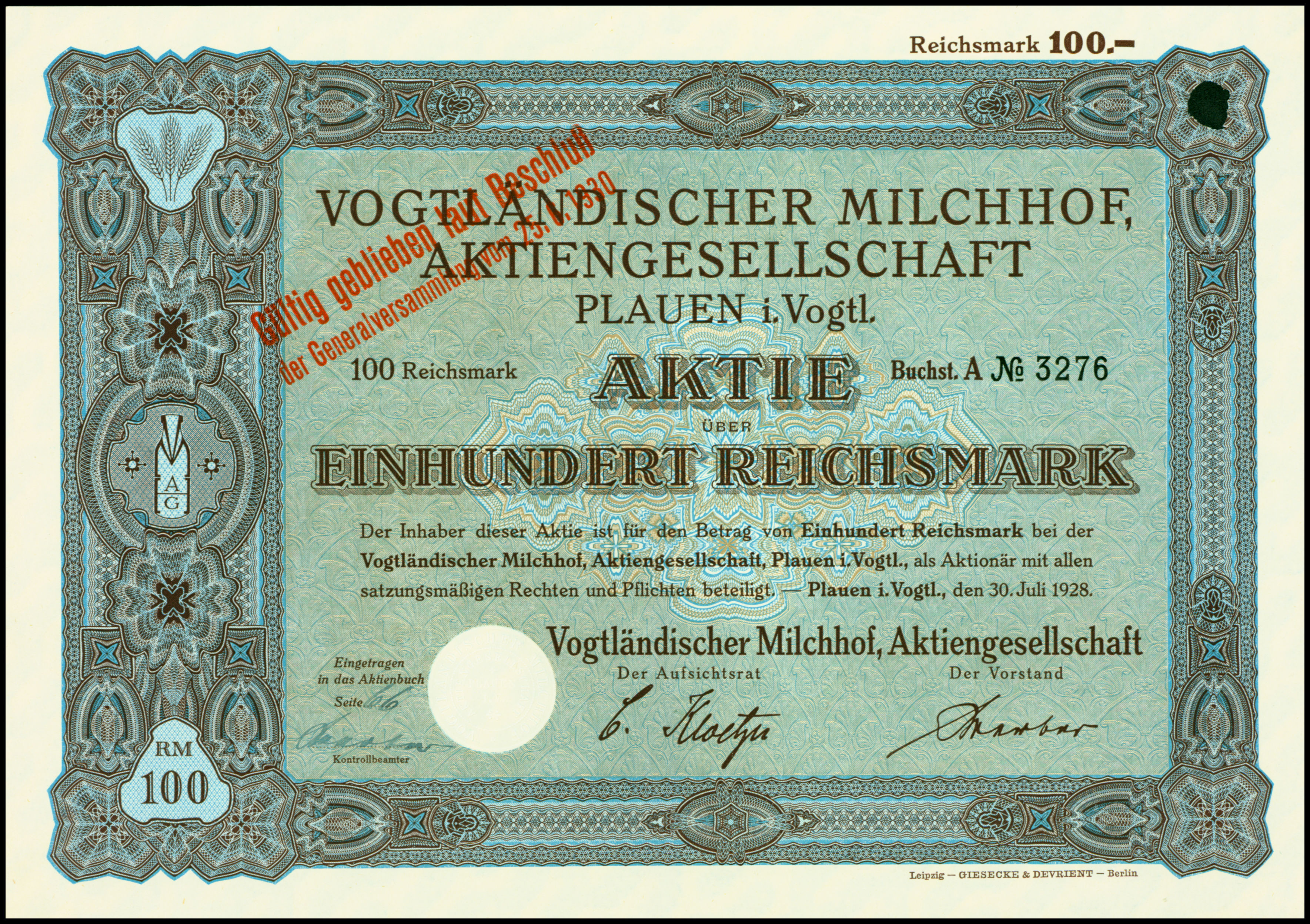 Share of the Vogtländischer Milchhof AG, issued 30 July 1928